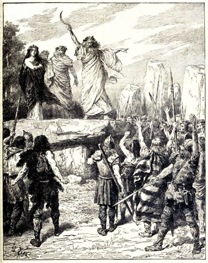 Druids Inciting the Britons to Oppose the Landing of the Romans - from Cassell's History of England, Vol. I - anonymous author and artists